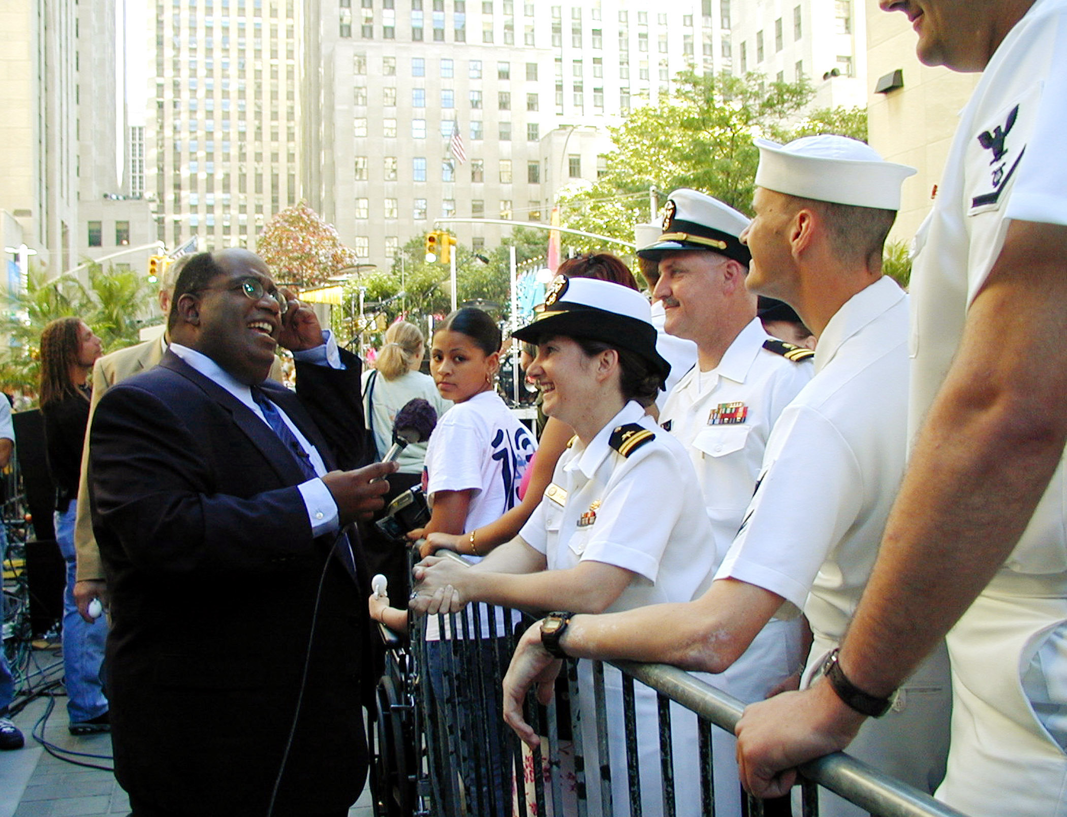 NBC's Today Show personality Al Roker chats with U.S. Navy Lt. Christa Sturbois and other sailors during a live broadcast of the popular morning show from Rockerfeller Center in New York City on July 7, 2000. Sturbois is one of over 25,000 international sailors and Marines from 20 countries in New York for International Naval Review 2000, a week-long event billed as a Celebration of Seapower for the Millennium. Sturbois is from Grandview, Ohio.